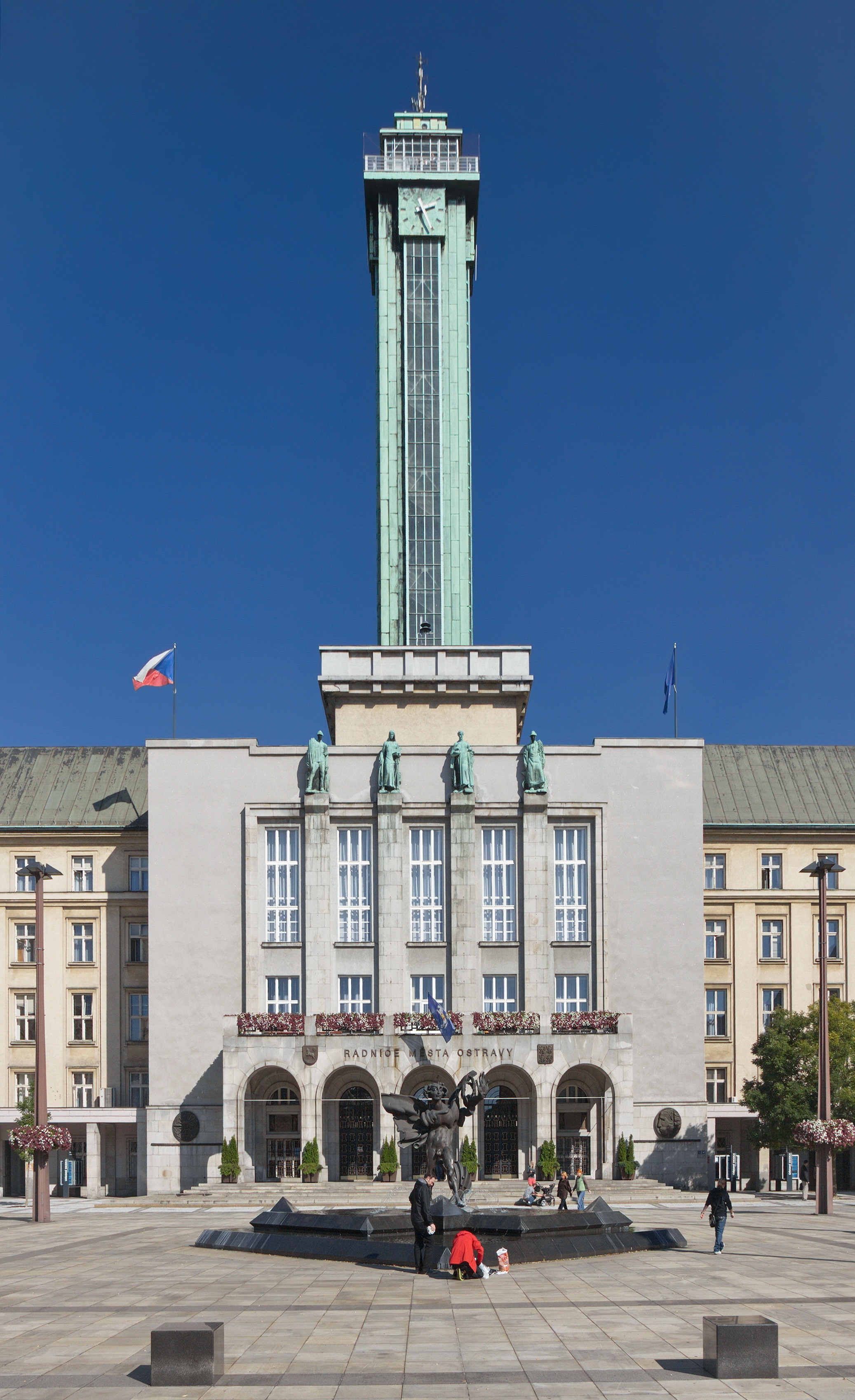 New Town Hall, Moravská Ostrava, Ostrava. Moravian-Silesian Region, Czech Republic.